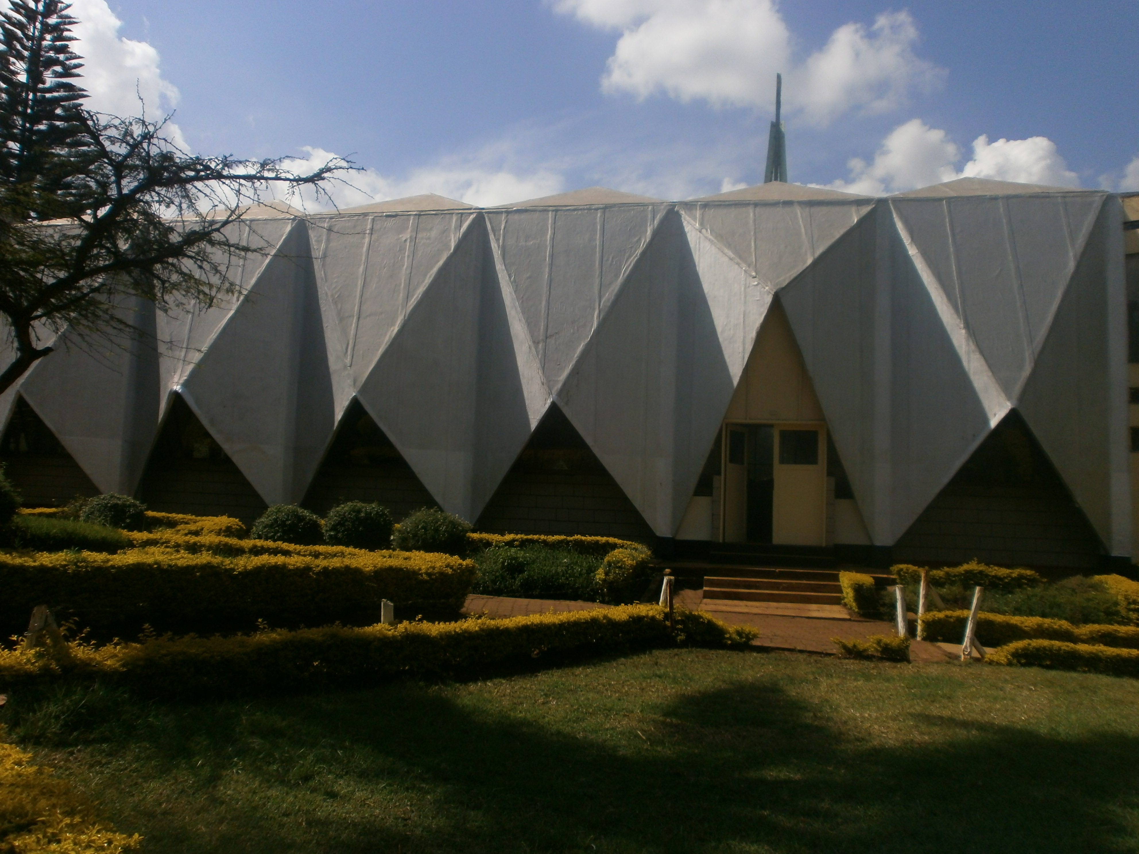 This a side view photo of the Alliance High School Chapel taken on 12th of February, 2016